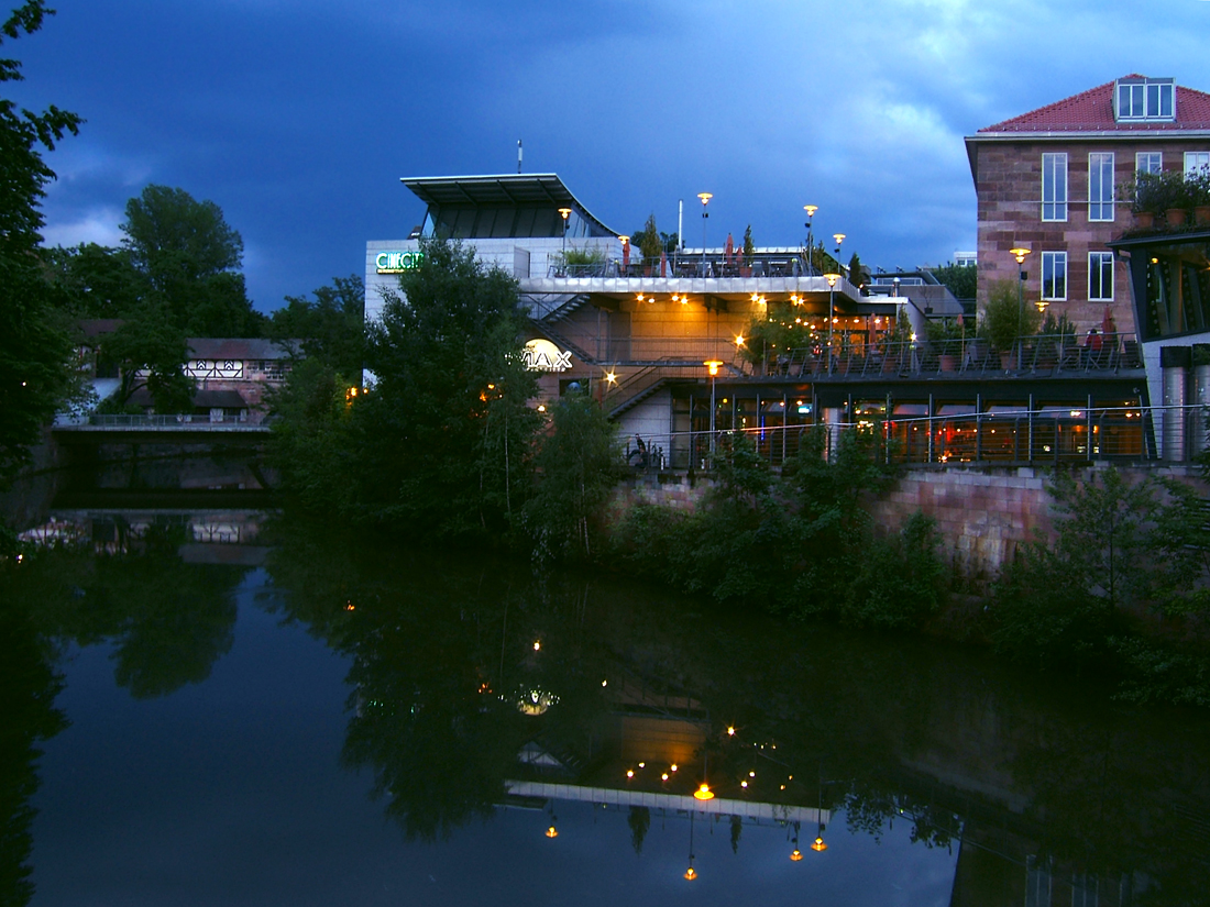 Cinema "Cinecittà" in Nuremberg, Germany; Blue hour.